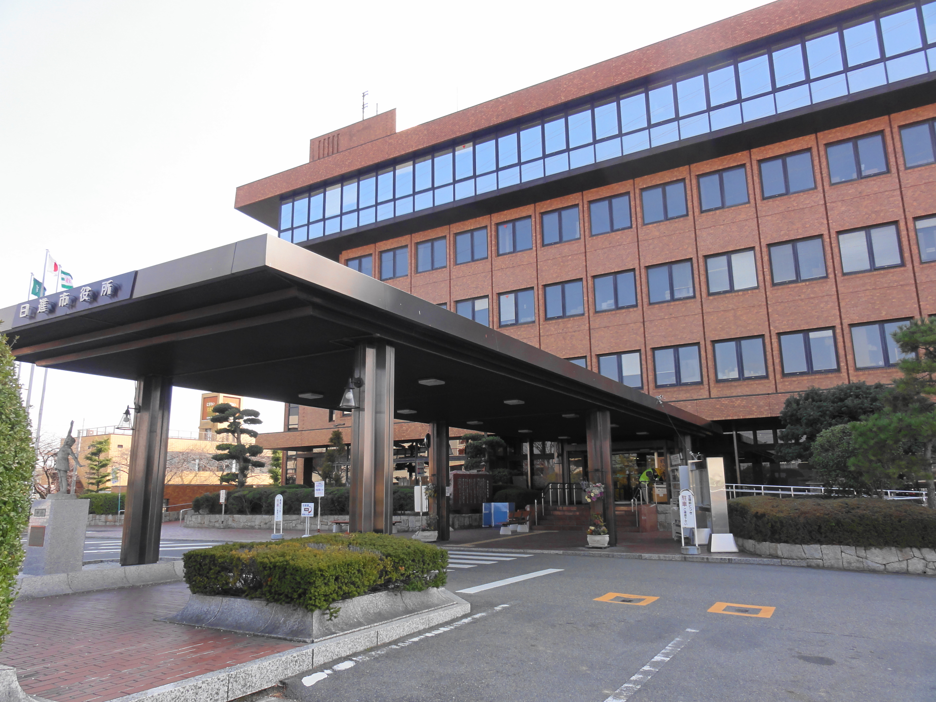 Nisshin city office,Aichi prefecture,Japan